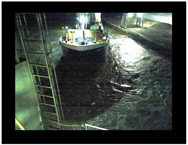 On December 15, 2007 the bulk carrier Algonorth allided with the Midwest Marine Terminal dock in Toledo Ohio, spilling over 3,500 tons of diesel fuel. Algonorth in foreground, Amelia Desgagnes in center)